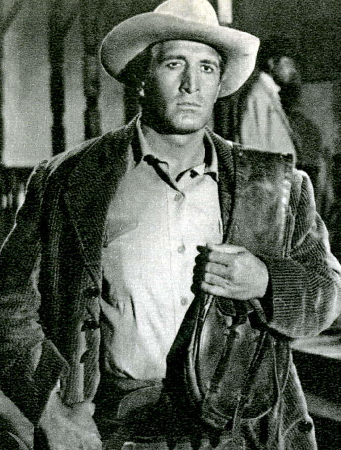 cropped screenshot from the film Per mille dollari al giorno (1965)